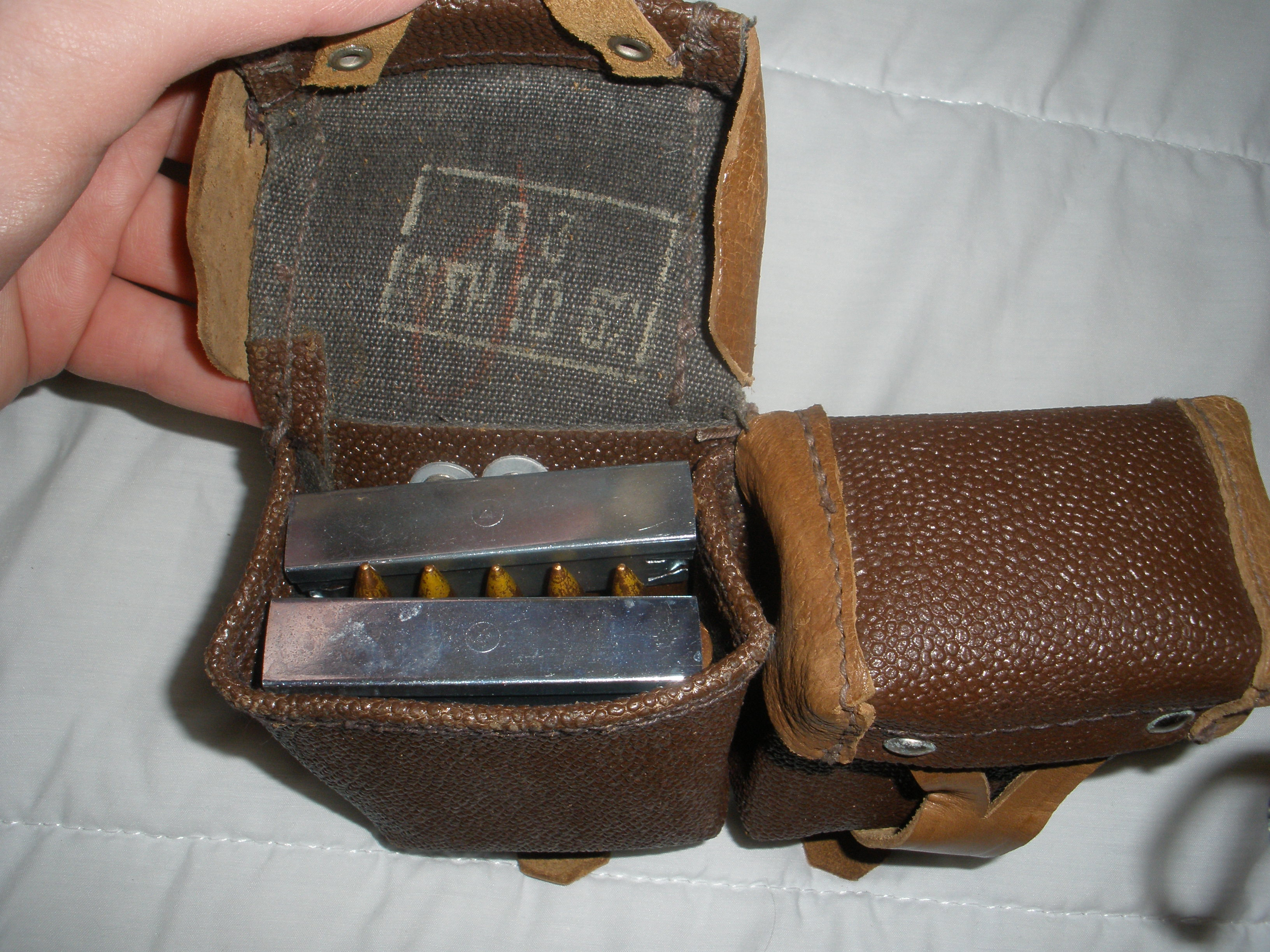 pouch